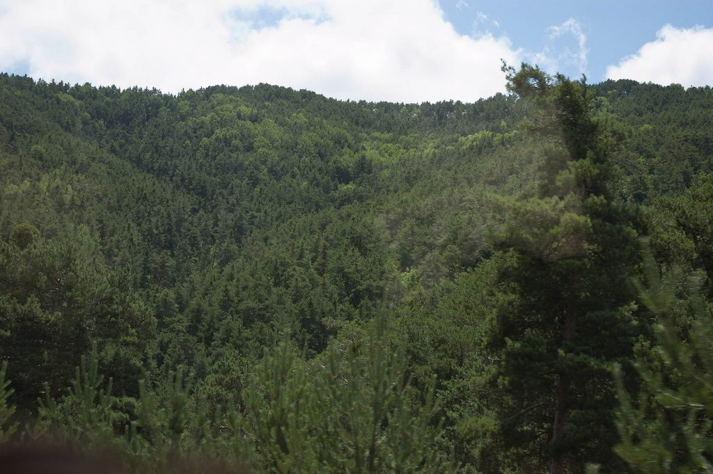 Mountain forest near Akdagmadeni